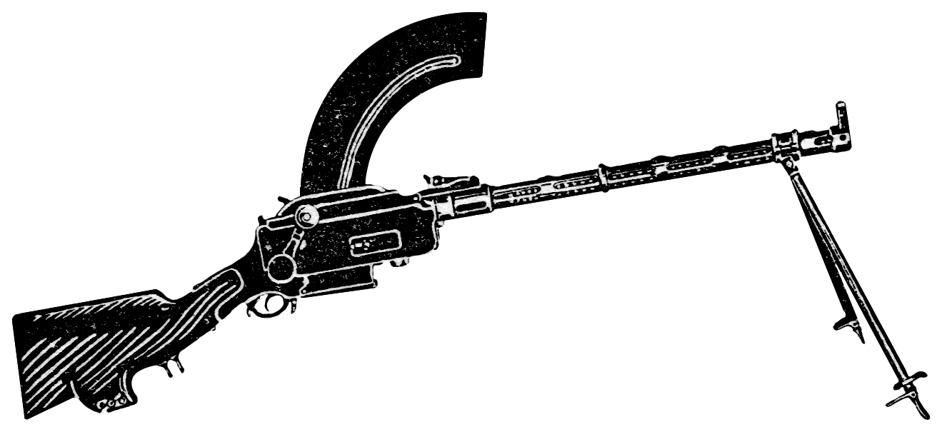 Scheme of Madsen light machine gun.